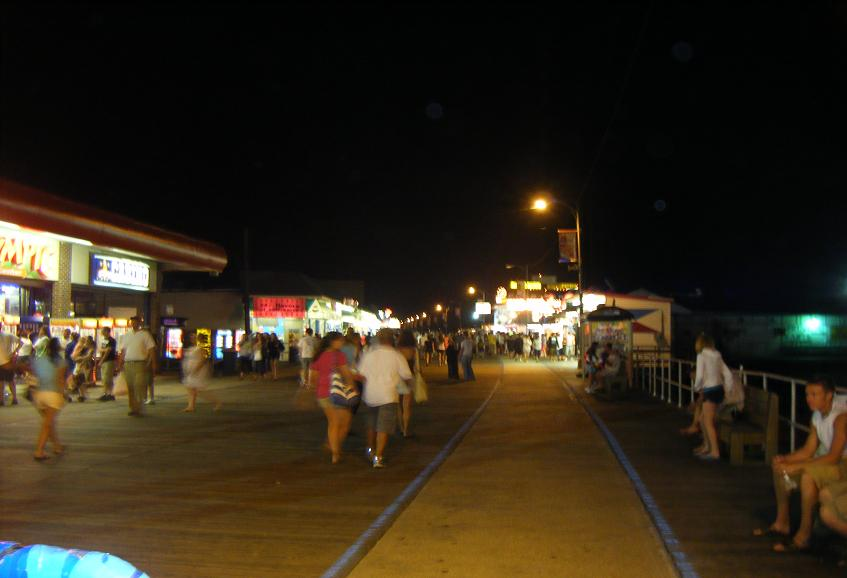 A view of the boardwalk in North Wildwood, New Jersey at night looking north